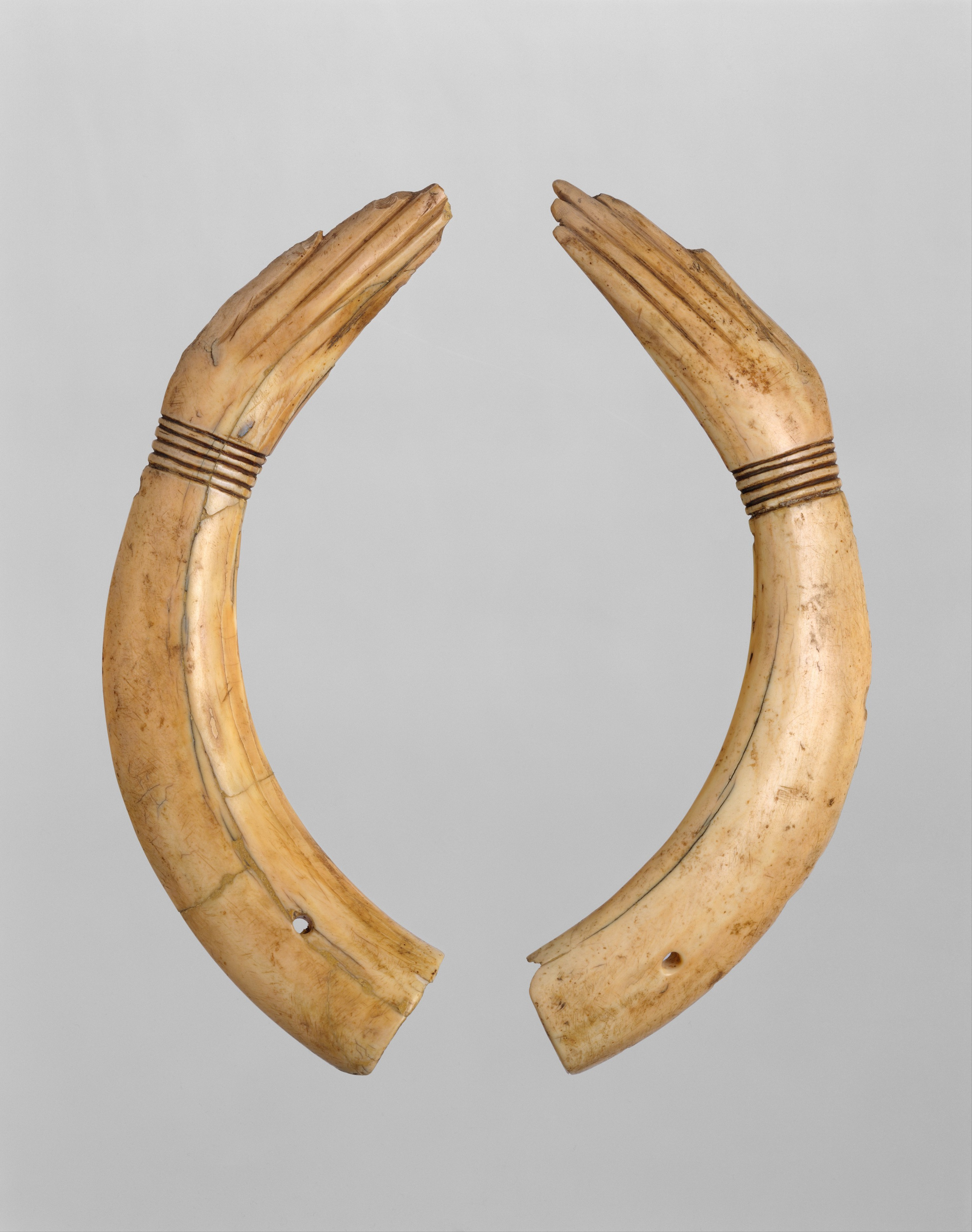 Clappers